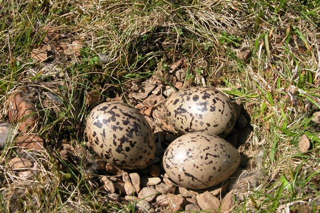 Oystercatcher eggs, Faroe Islands